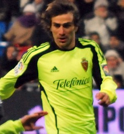 Ponzio playing for Zaragoza